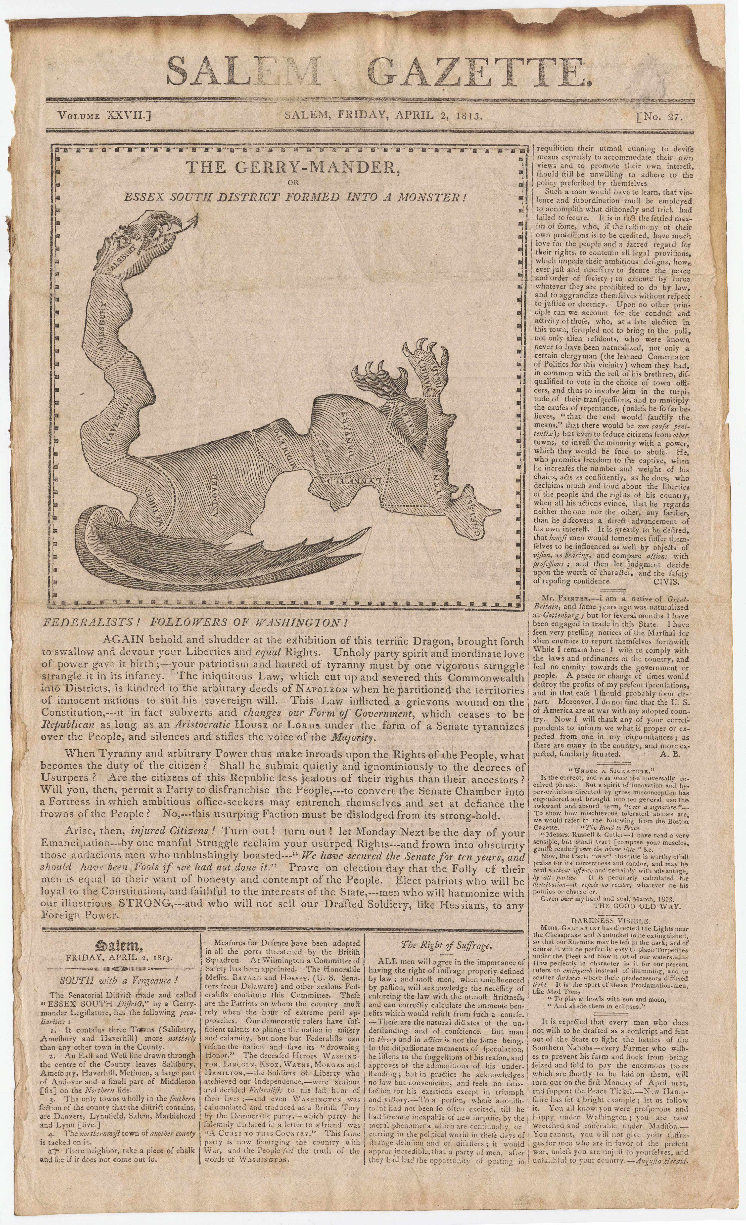 This satirical map reflects the origin of the word "gerrymander", by Elkanah Tisdale in 1813.